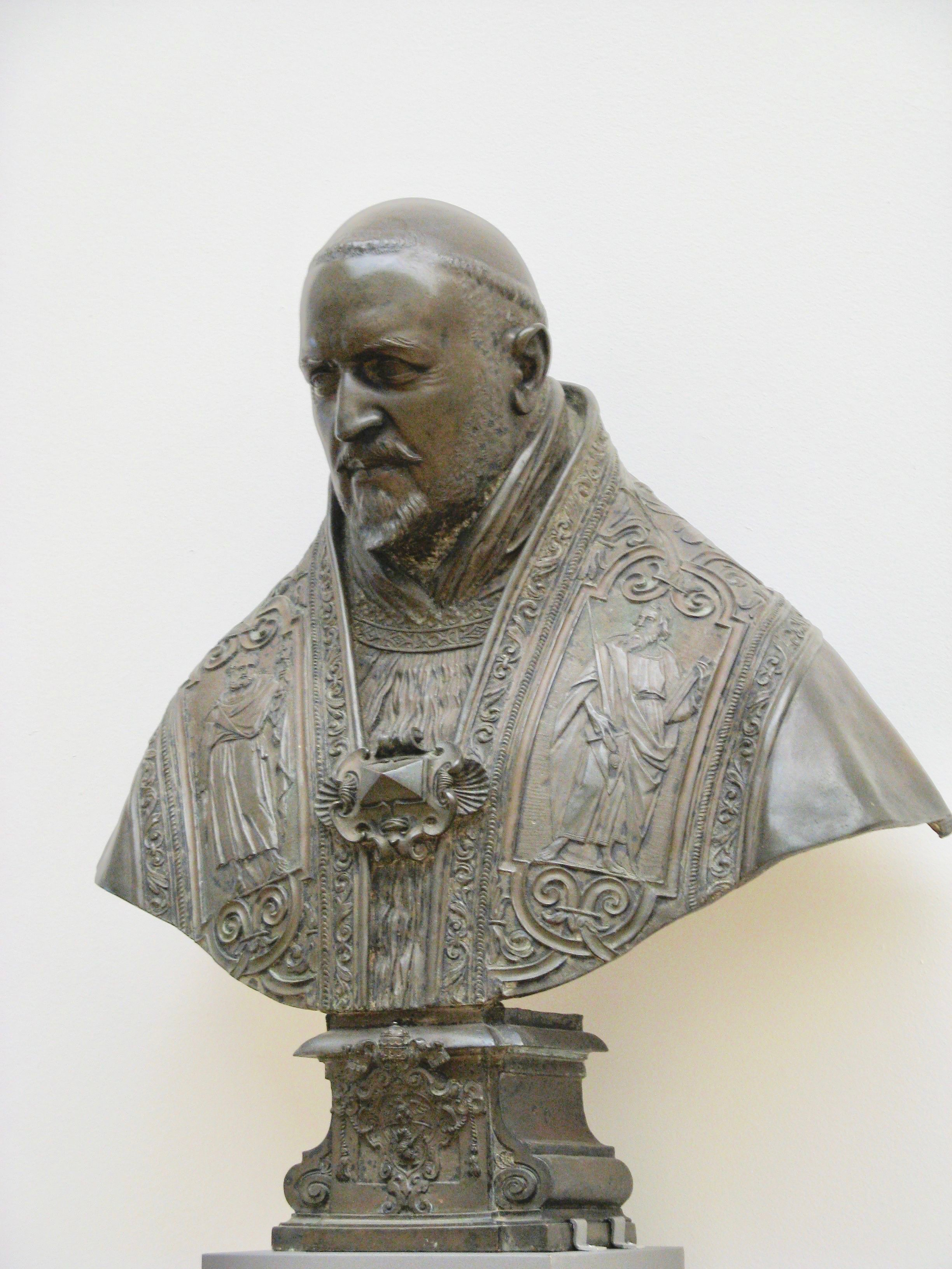 Bust of Pope Pau V Borghese by Giovanni Lorenzo Bernini at Statens Museum for Kunst.